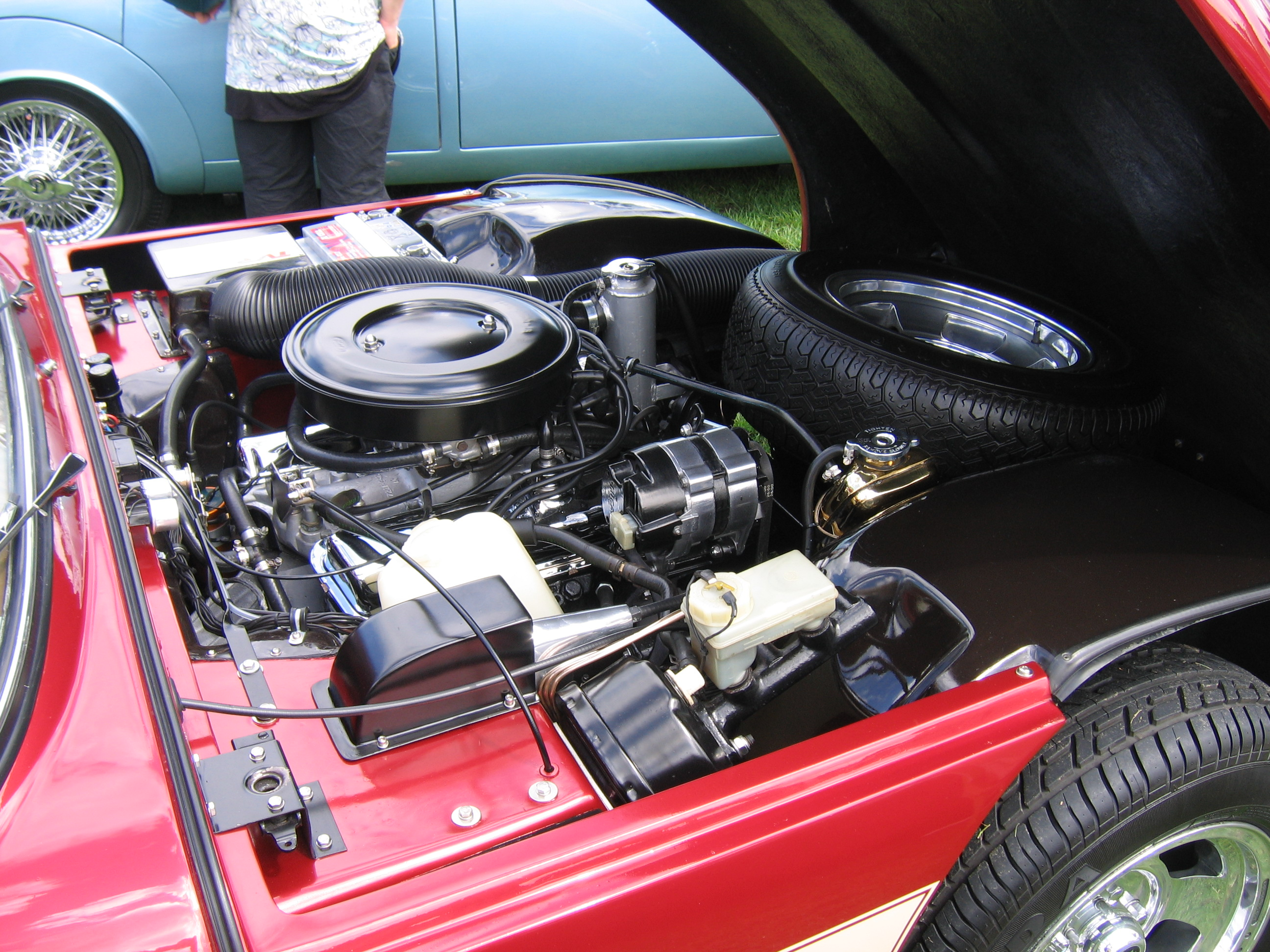 Engine compartment of a TVR 3000M, showing the Ford Essex V6 engine.